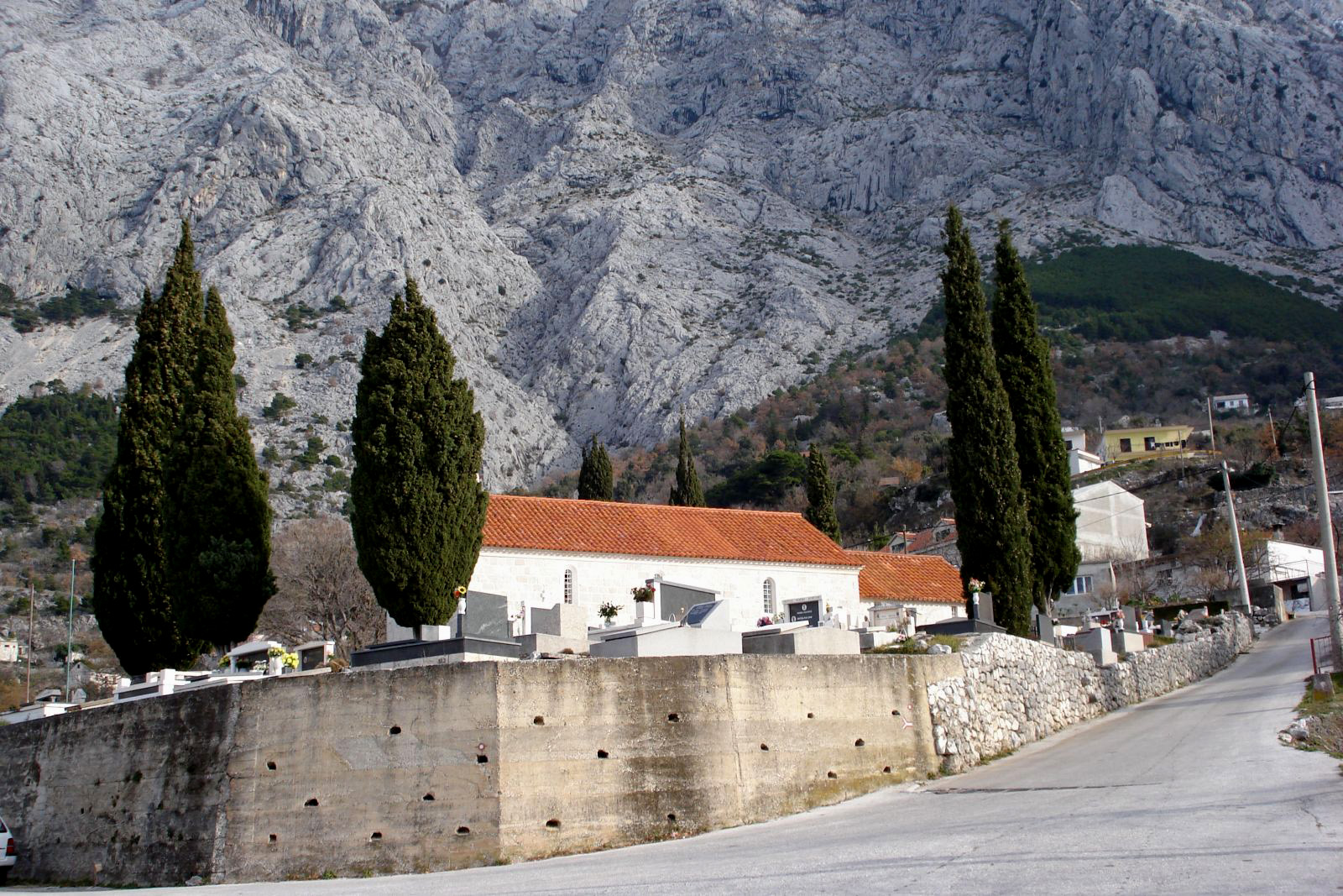 Bast, near Baška Voda.